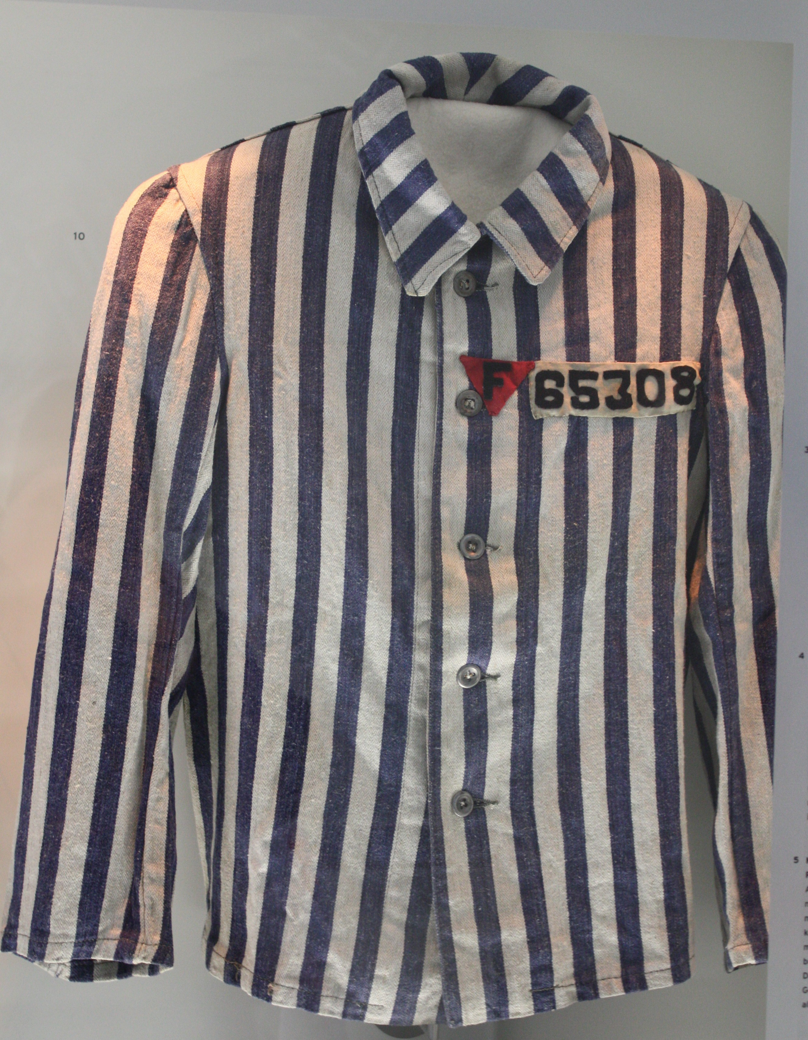 Prisoner uniform, Sachsenhausen_concentration_camp, a Nazi concentration camp in Oranienburg, Germany.